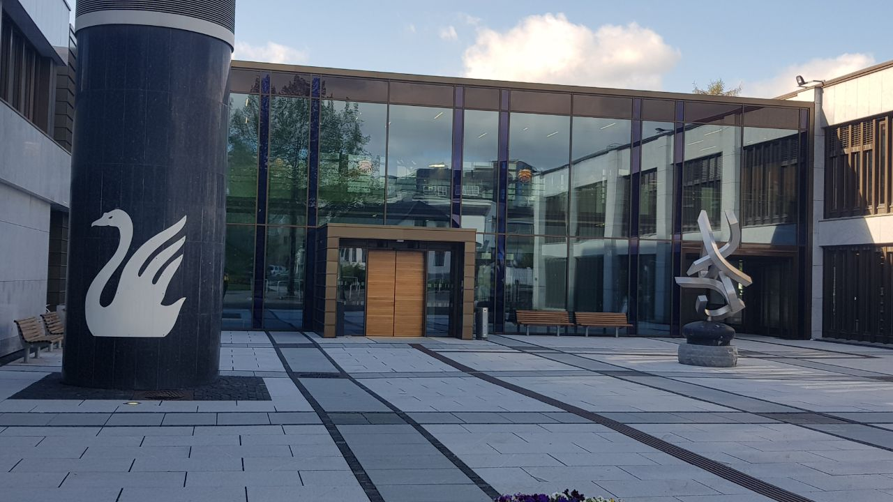 Gjøvik City Hall.